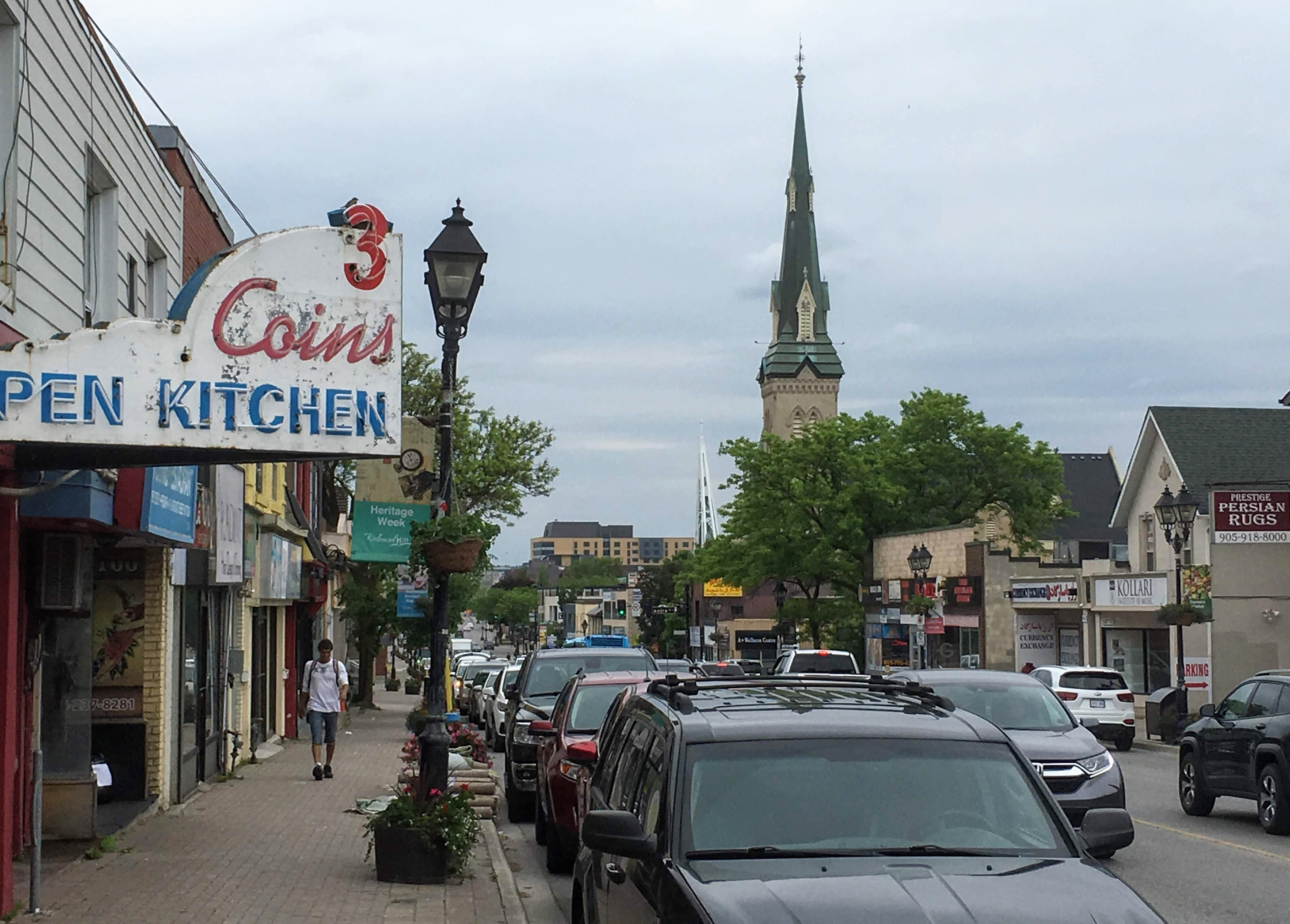 Downtown Richmond Hill as viewed from Yonge & Arnold facing north, Summer 2019